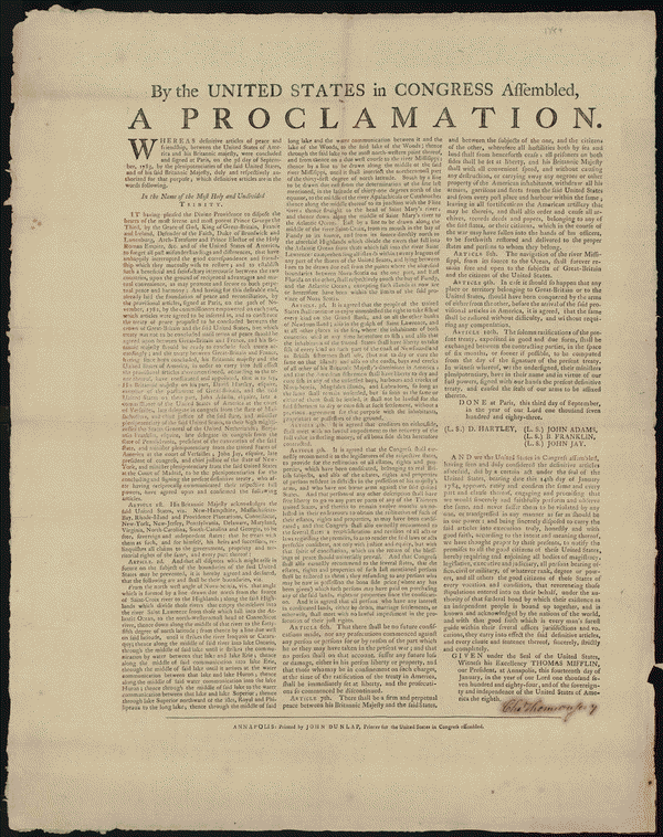 1784 Proclamation of the ratification of the Treaty of Paris by the US Congress in Annapolis, Maryland.